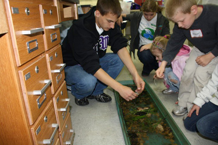 Red Wing High School's Ag Science Department hosts Earth Day, an event where first grade students learn about the environment, conservation and agriculture.